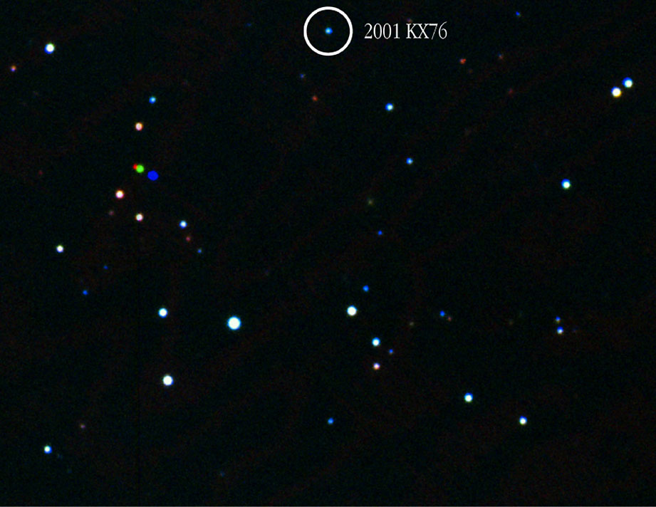 The image is a colour composite image showing Asteroid "2001 KX76", based on three exposures with the Wide Field Imager (WFI) at the MPG/ESO 2.2-m telescope at the La Silla Observatory. Ixion appears as a faint point because it is currently 41 AU away and has an apparent magnitude of about 19.7.